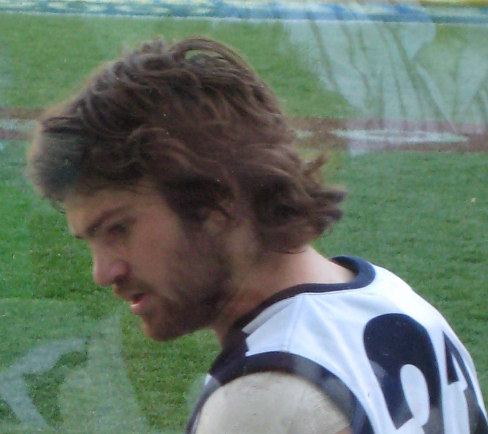 Geelong Football Club player, Max Rooke at Geelong vs Kangaroos, Qualification Final, 19/09/2007